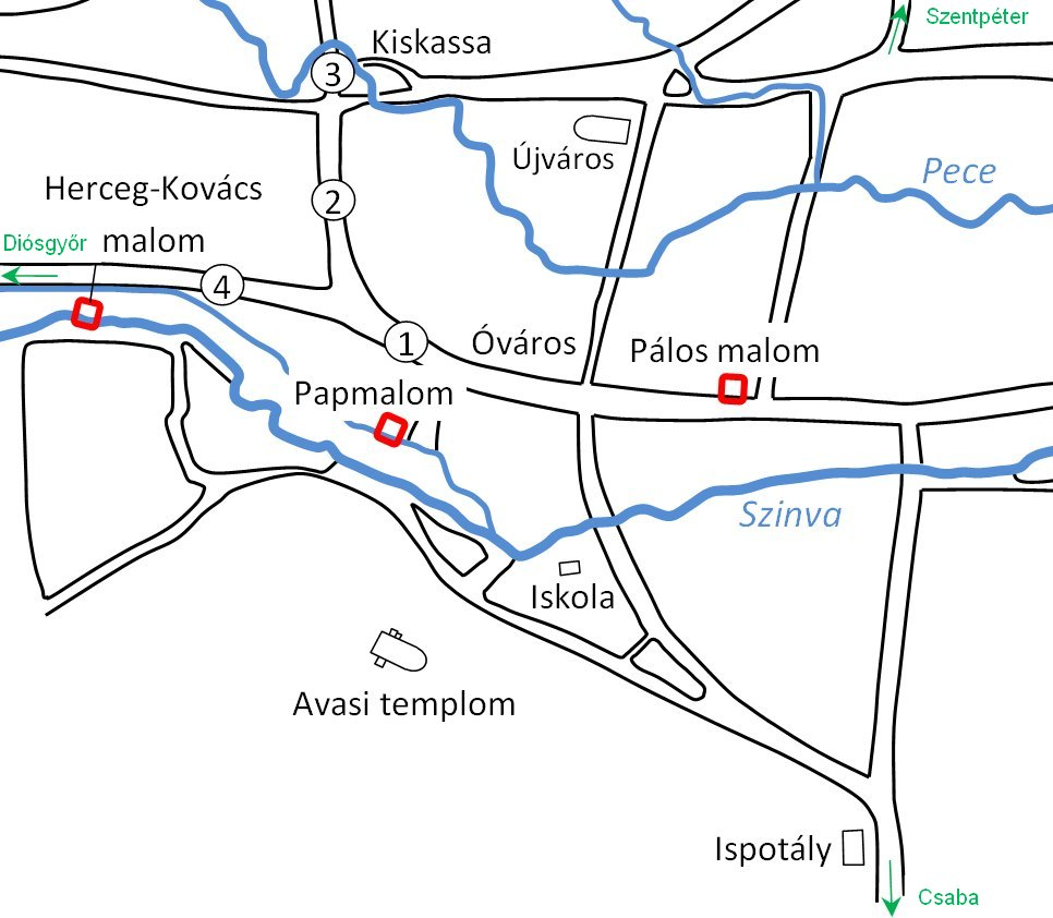 Topography of Miskolc in the Middle Age (after Éva Gyulai)